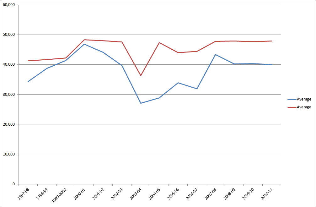 Sunderland's highest and average home attendances since the Stadium of Light was opened.